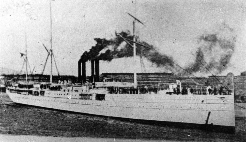 5,867 GRT passenger liner Dumbéa leaving La Joliette, Marseille, France. She was built in 1889 at La Seyne-sur-Mer, Provence as Brésil for service between France and South America. In 1903 she was renamed 'Dumbea' and transferred to service between France, Australia and the Far East. In WW1 she served as a troop ship in the Dardanelles campaign and later in the evacuation of the Serbian army. On 10 September 1919 she capsized while being floated out of a dry dock at Marseilles. She was scrapped in 1928. (From description supplied with photograph).